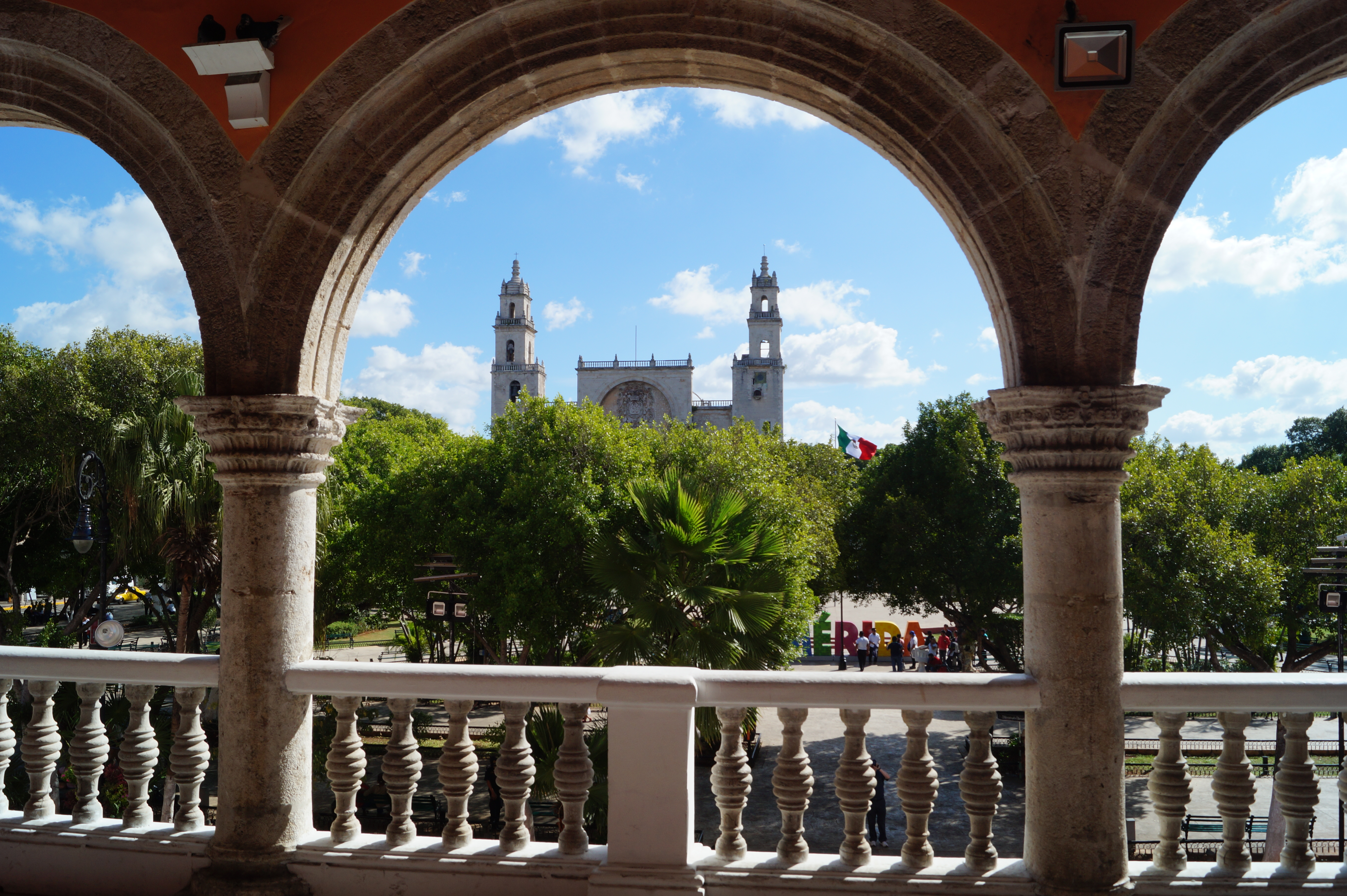 Mérida, Yucatán.